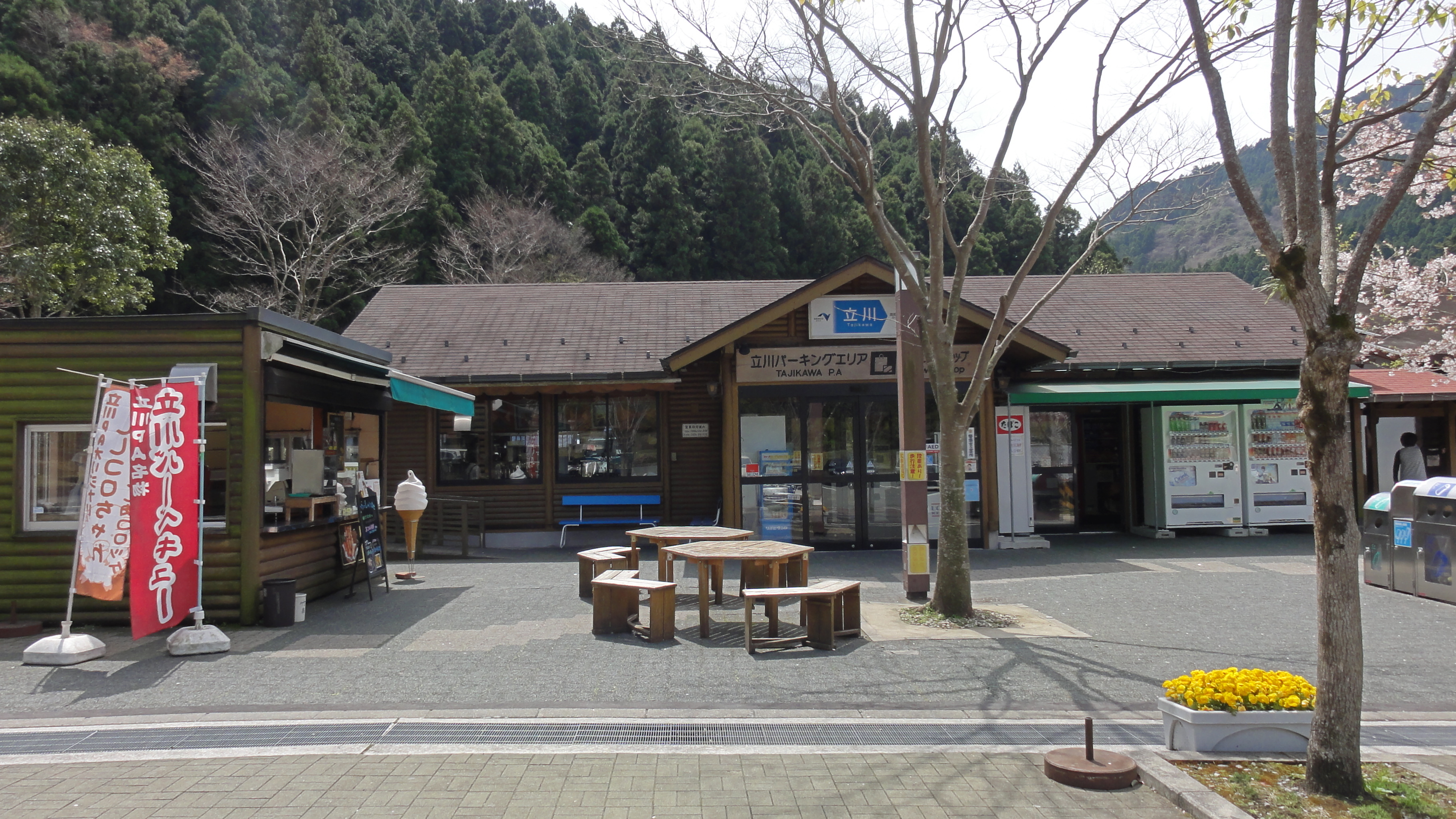 Tachikawa Parking Area ,Kochi prefecture, Japan